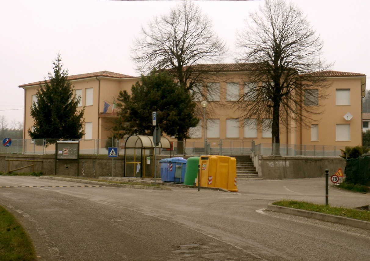 Castello Roganzuolo, Scuole Elementari (School)